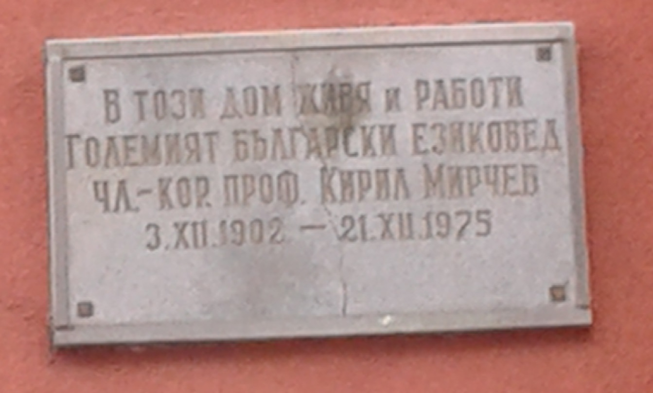 Kiril Mirchev Memorial Plaque, 168 Rakovski Str., Sofia